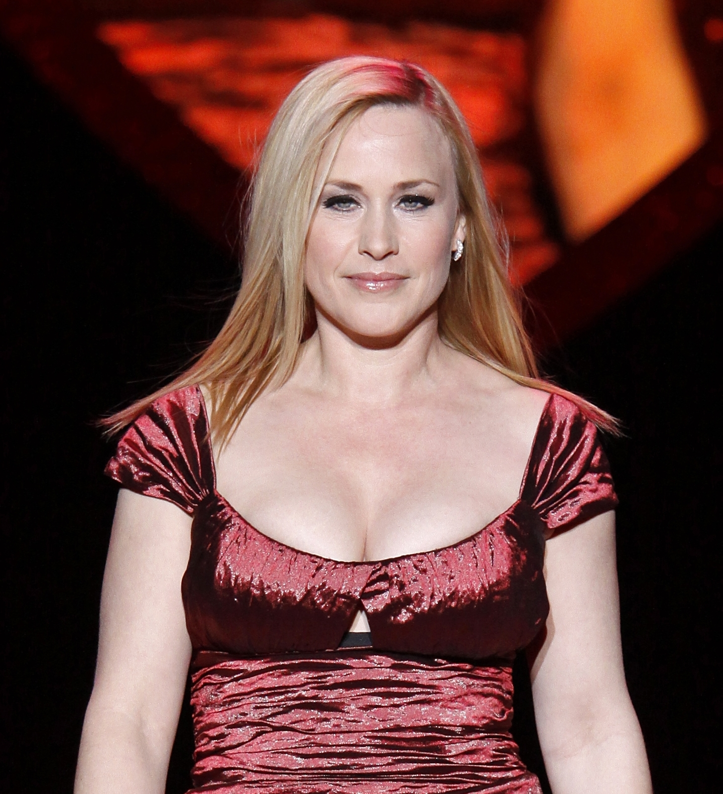 Patricia Arquette on the runway at The Heart Truth's Red Dress Collection Fashion Show during New York Fashion Week. February 13, 2009 at Bryant Park.